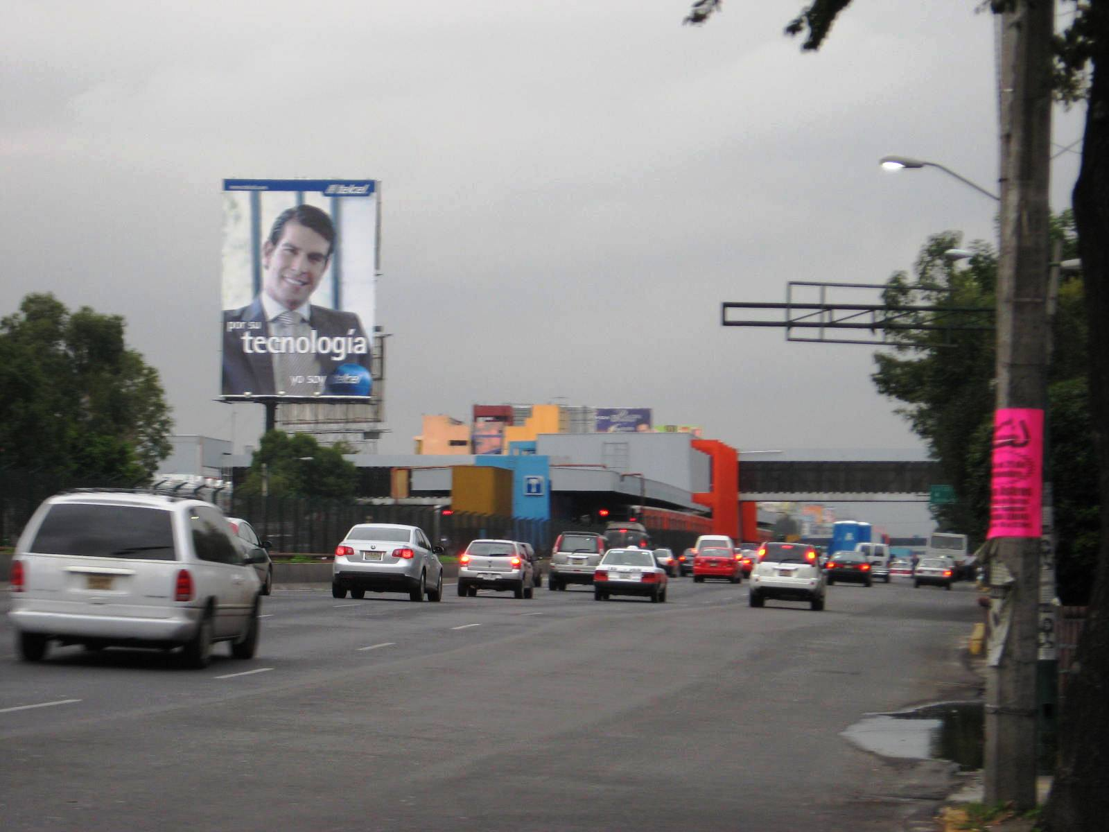 View of Metro station Xola on Line 2 of the Mexico City Metro system